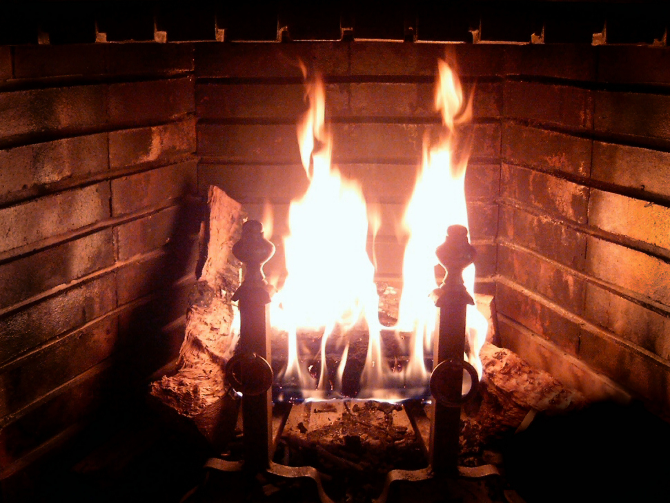 Photo of my fireplace; taken by me, Francisco Belard (Belard) with a cheap HP Photosmart 635 camera in 15/12/2004; touched up and cropped with Jasc Paint Shop Pro 9. Wood-burning brick fireplace with burning log on iron bars. Some other logs are drying and heating up near the fire so they'll burn better.